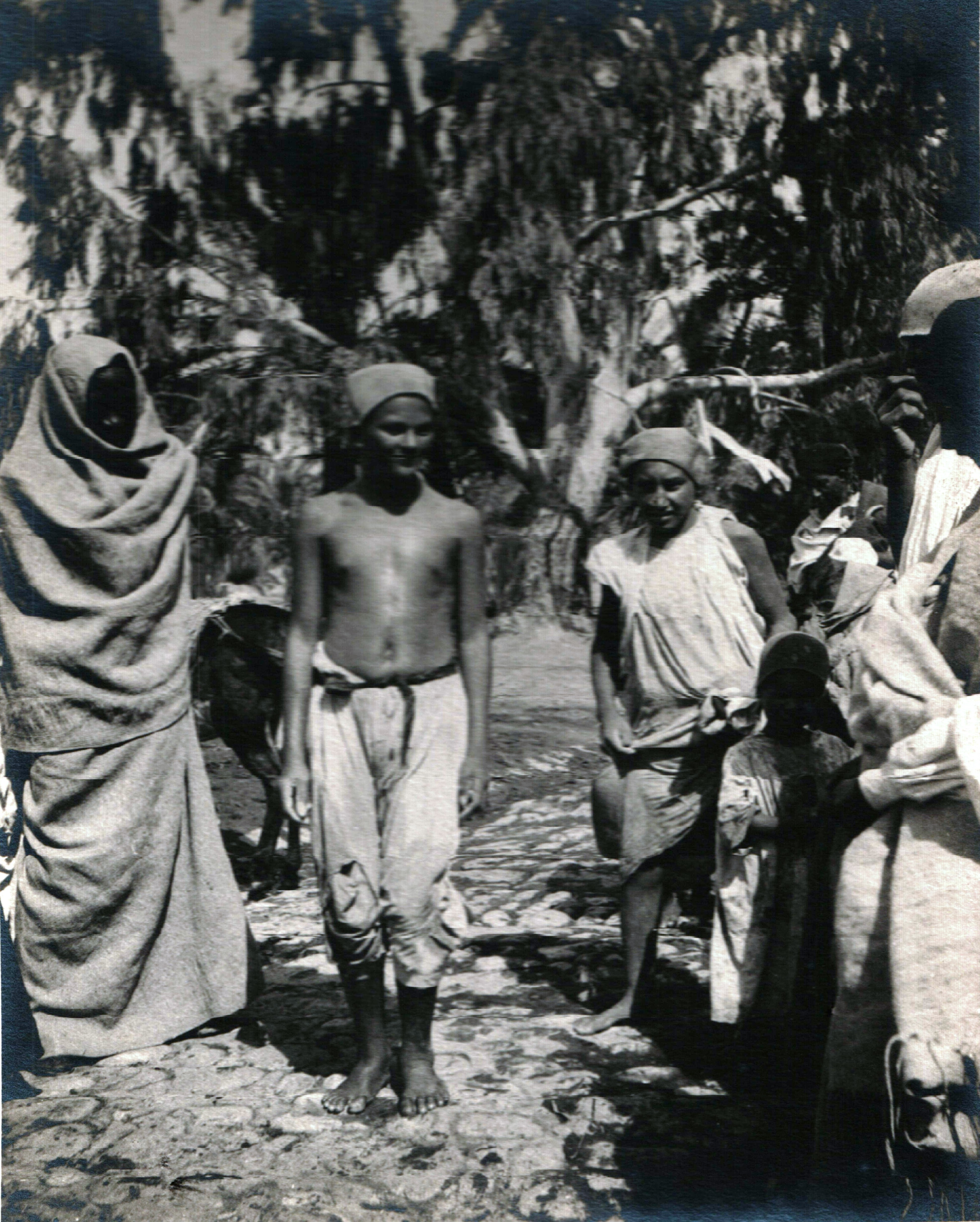 Scenes and images from Sahara and other sights of Africa. Boys from Maghreb